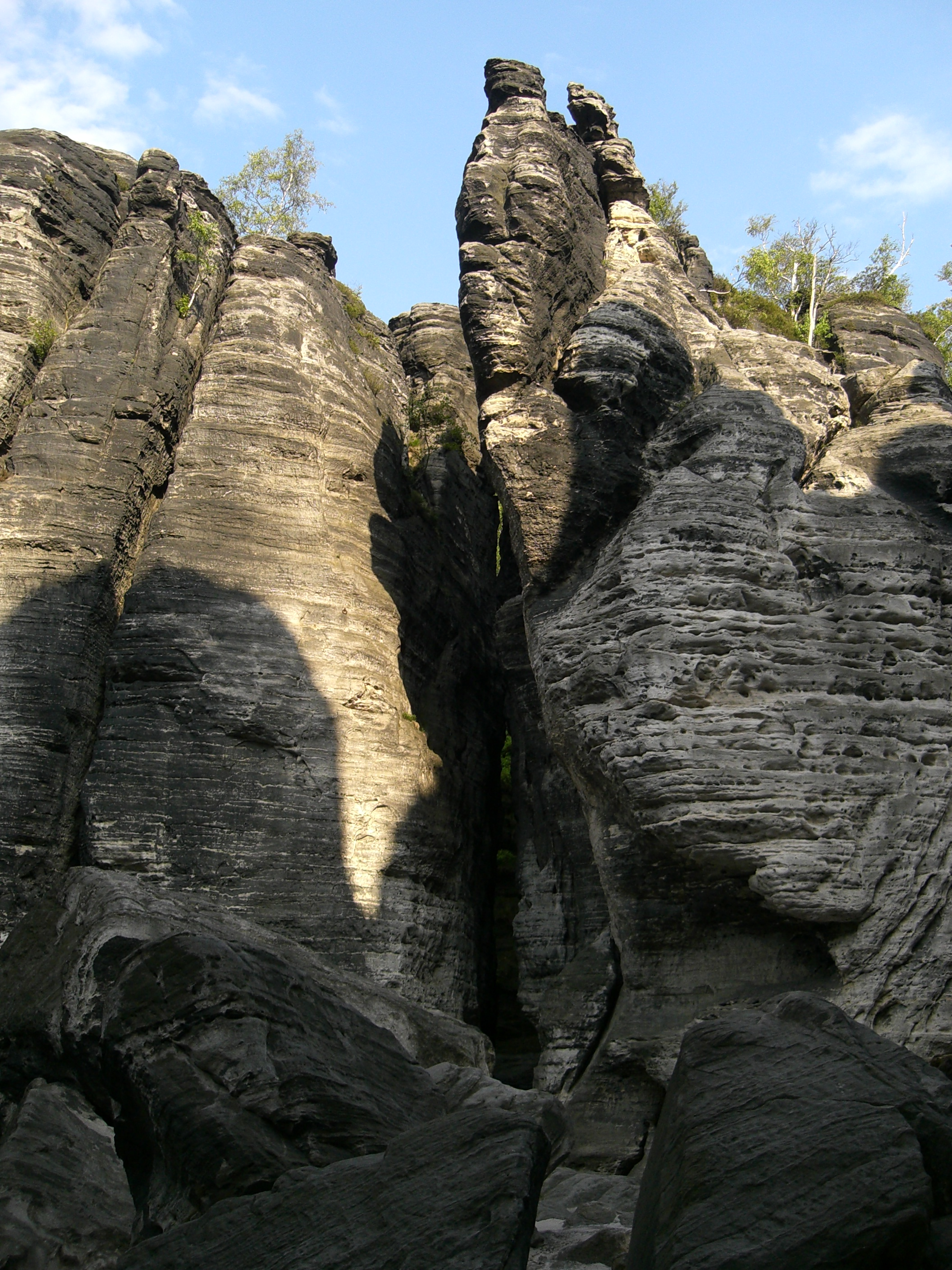 Labské pískovce - panorama, Czech Republic. Part Tiské stěny near Tisá village.